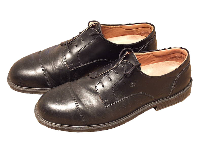 A pair of Class S3 Jallatte Jalpalme JDR12 safety shoes. This safety footwear complies to the European EN ISO 20345:2004 standards.